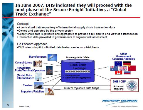 US DHS project